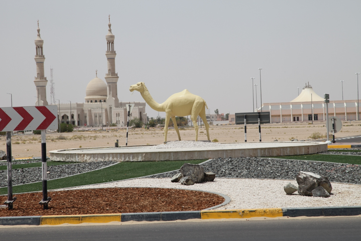 Suwaihan's round about